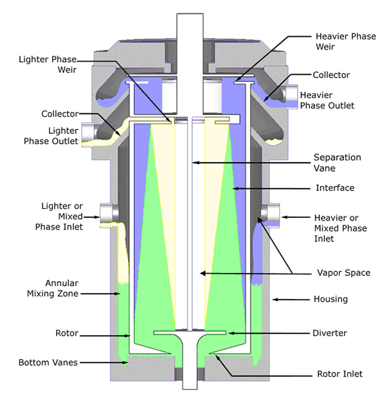 Cutaway view of the CINC centrifugal extractor